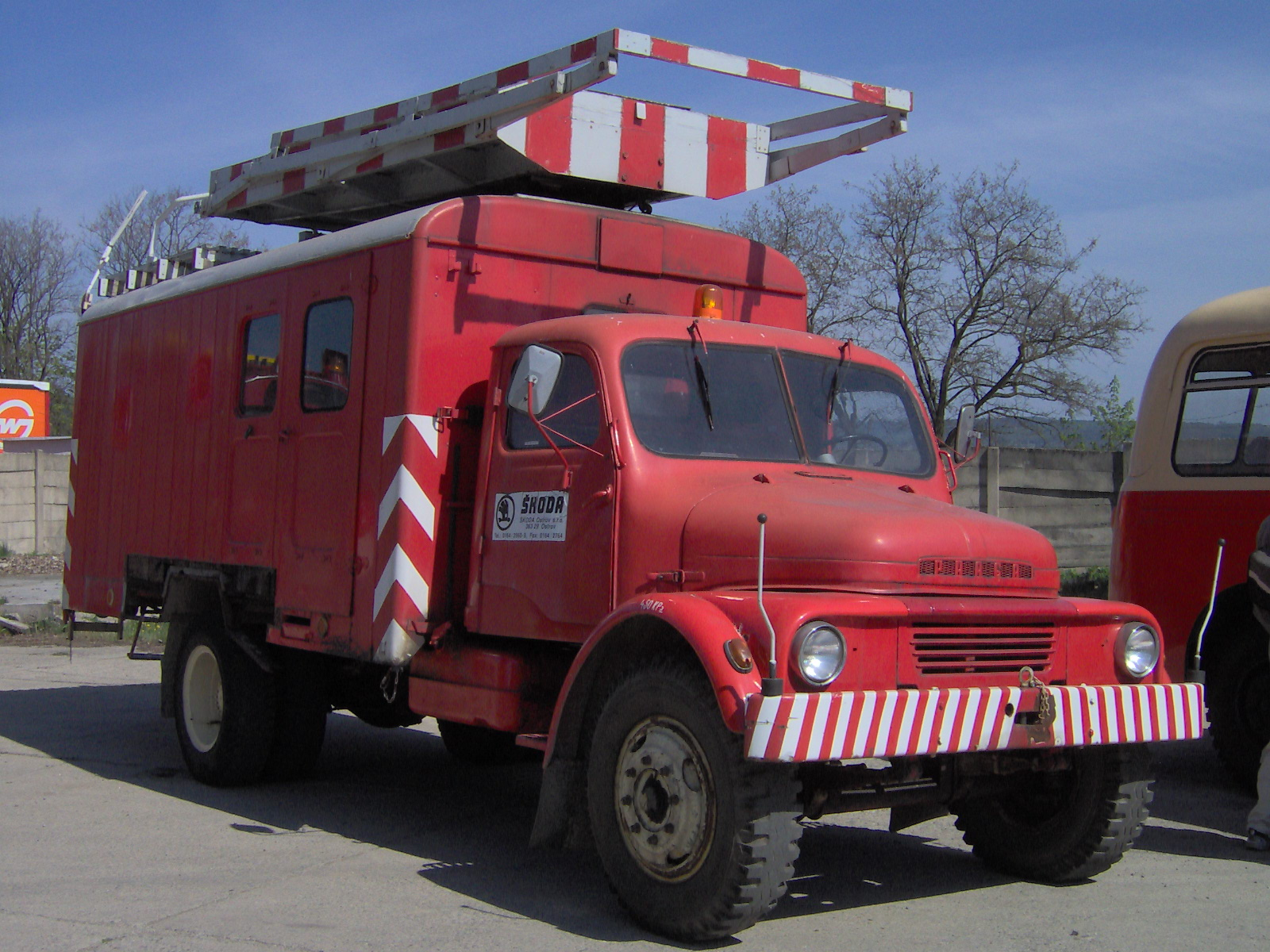 Praga S5T (car for installation and repair of trolley line) in Brno (possesion of Technical Museum in Brno since 2004.